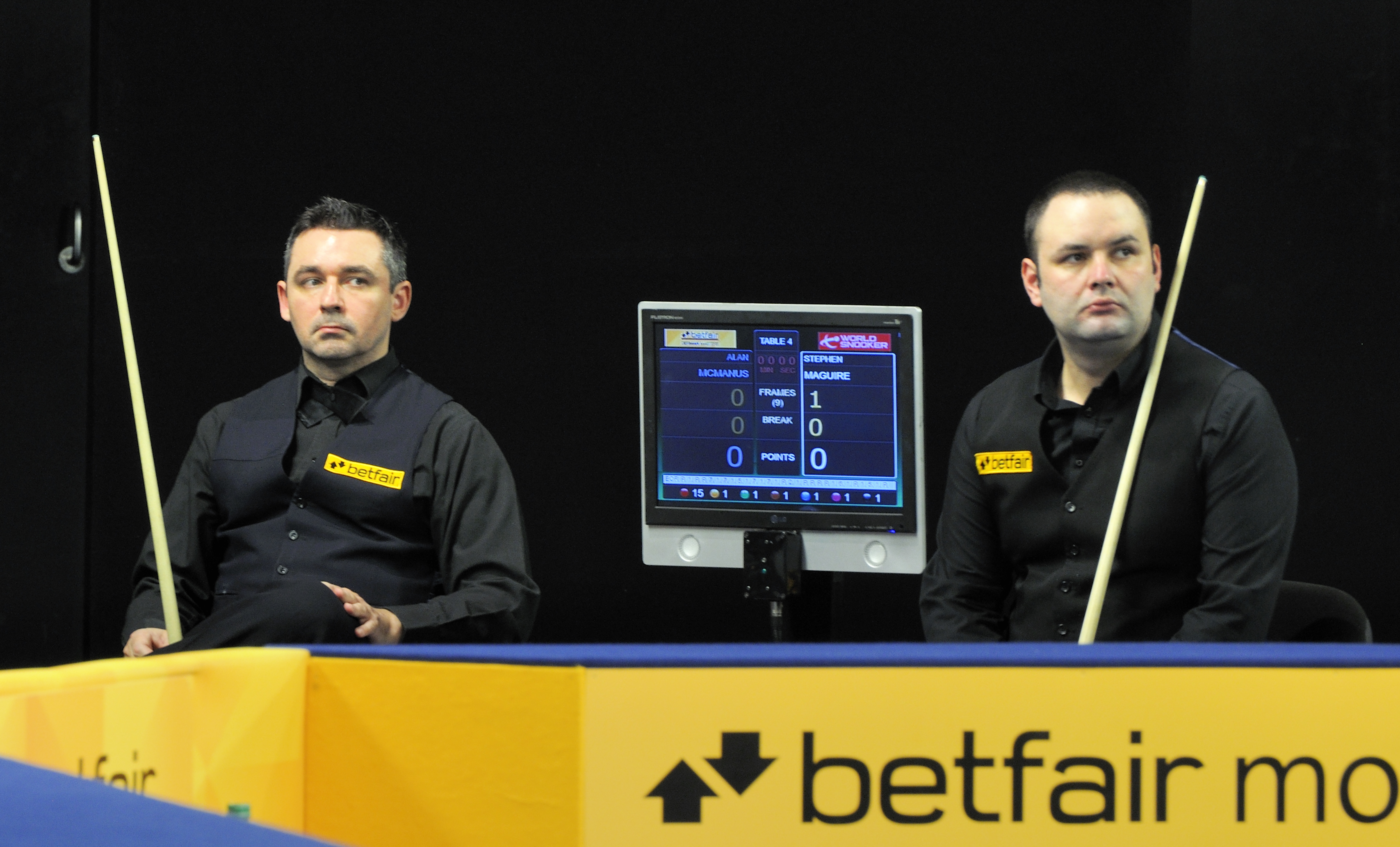 Picture taken in Berlin during the Snooker German Masters in 2013. Alan McManus, Stephen Maguire.